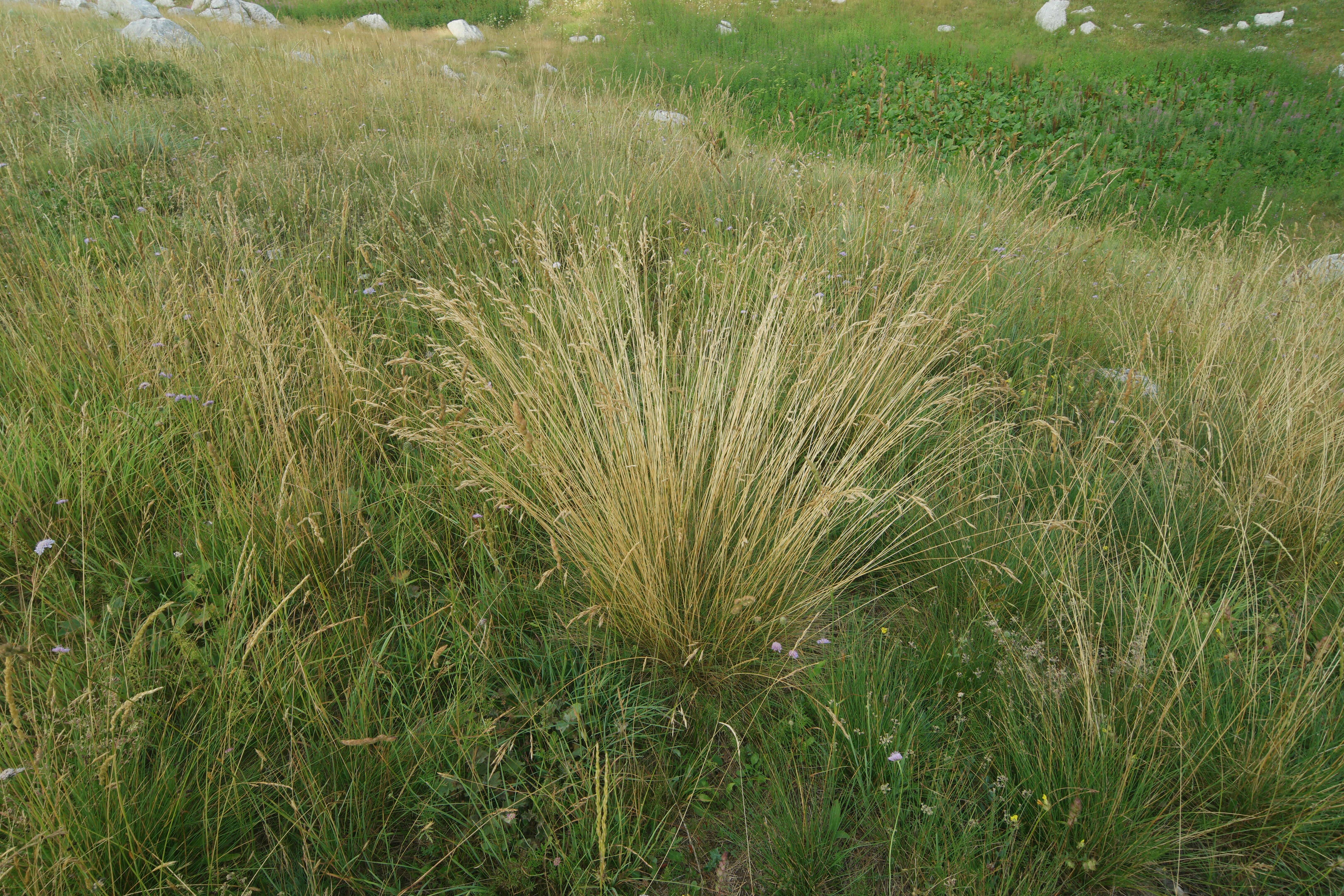 Festuca bosniaca Kumm. & Sendt. leg P.Cikovac Orjen Opuvani do north inclined slope of the Jastrebica ridge